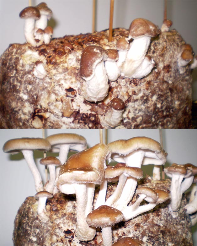 Photographs I took of shiitake mushrooms growing. The photos were taken about 24 hours apart.